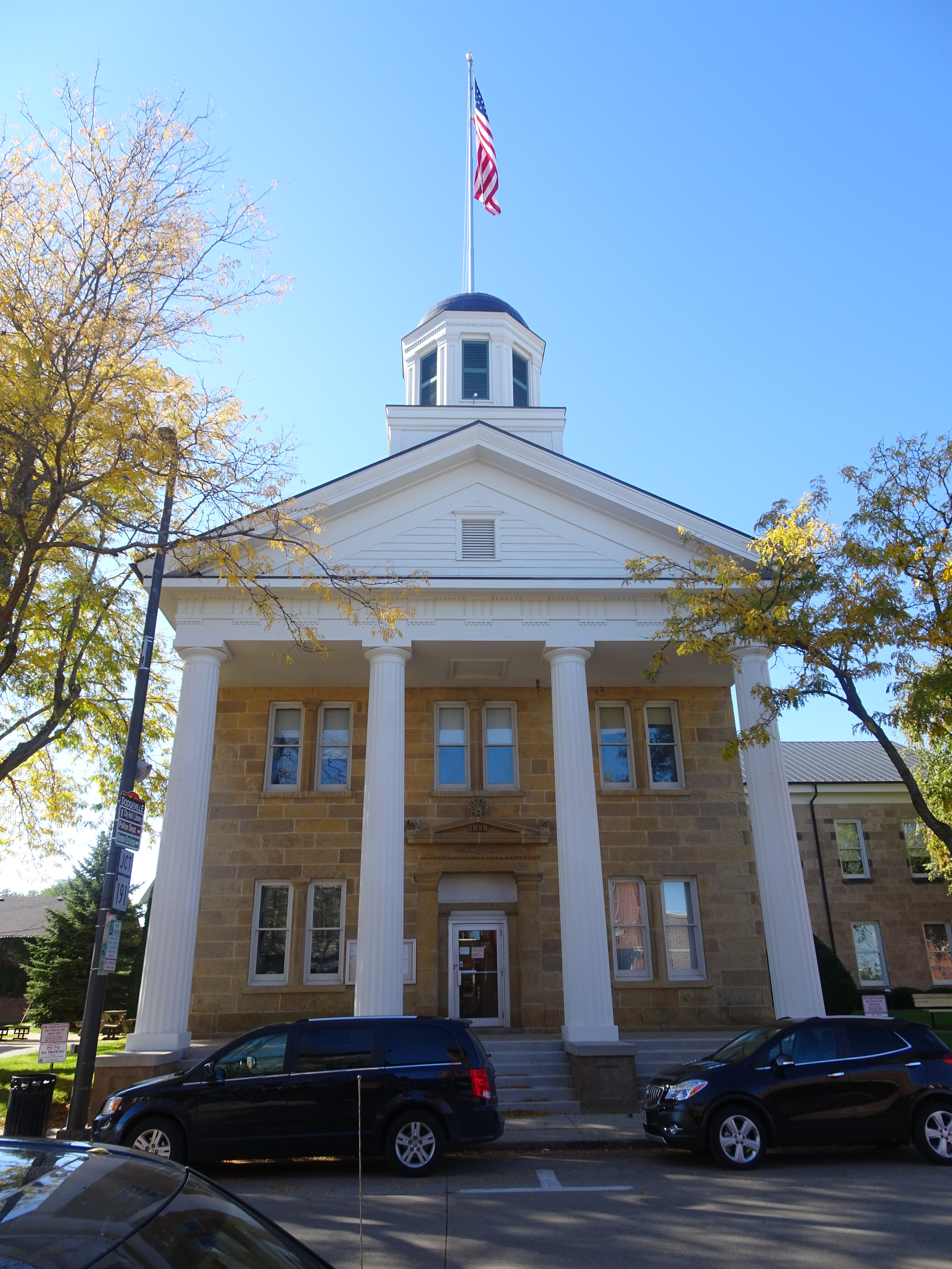 Iowa County Courthouse